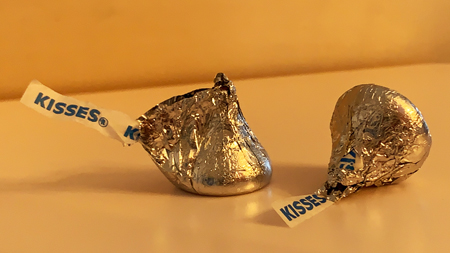 Hershey's KISSES Milk Chocolate Kiss Identified by Silver Aluminum Foil Wrapper and a KISSES Labeled Plume